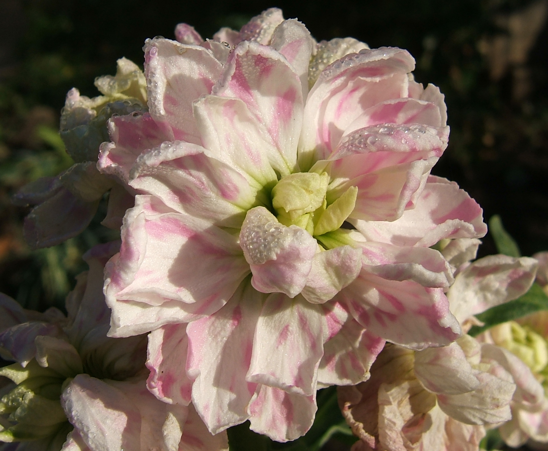 Plants growing in a half shady place at 240 m in Rems Valley, a warm viniculture region in Baden Württemberg, Germany.